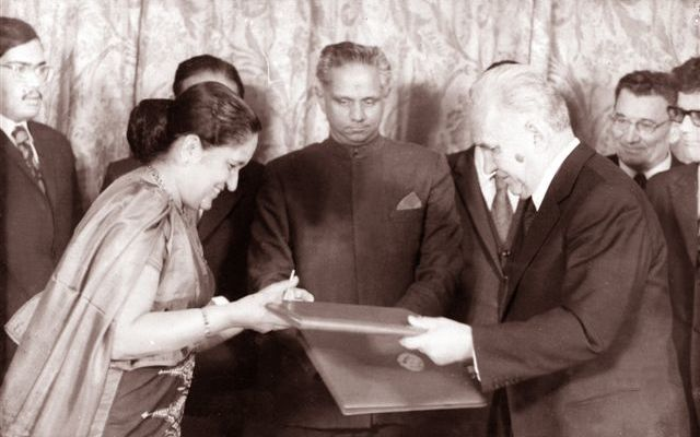 Photo of Tissa Wijeyeratne with Mrs. Sirimavo Bandaranaike and Alexei Kosygin. This photo from my family collection If you need any clarification you may contact this address. Copyright holder Anuradha Dullewe Wijeyeratne 168/ 7, Inner Flower Road, Colombo 7, Sri Lanka.